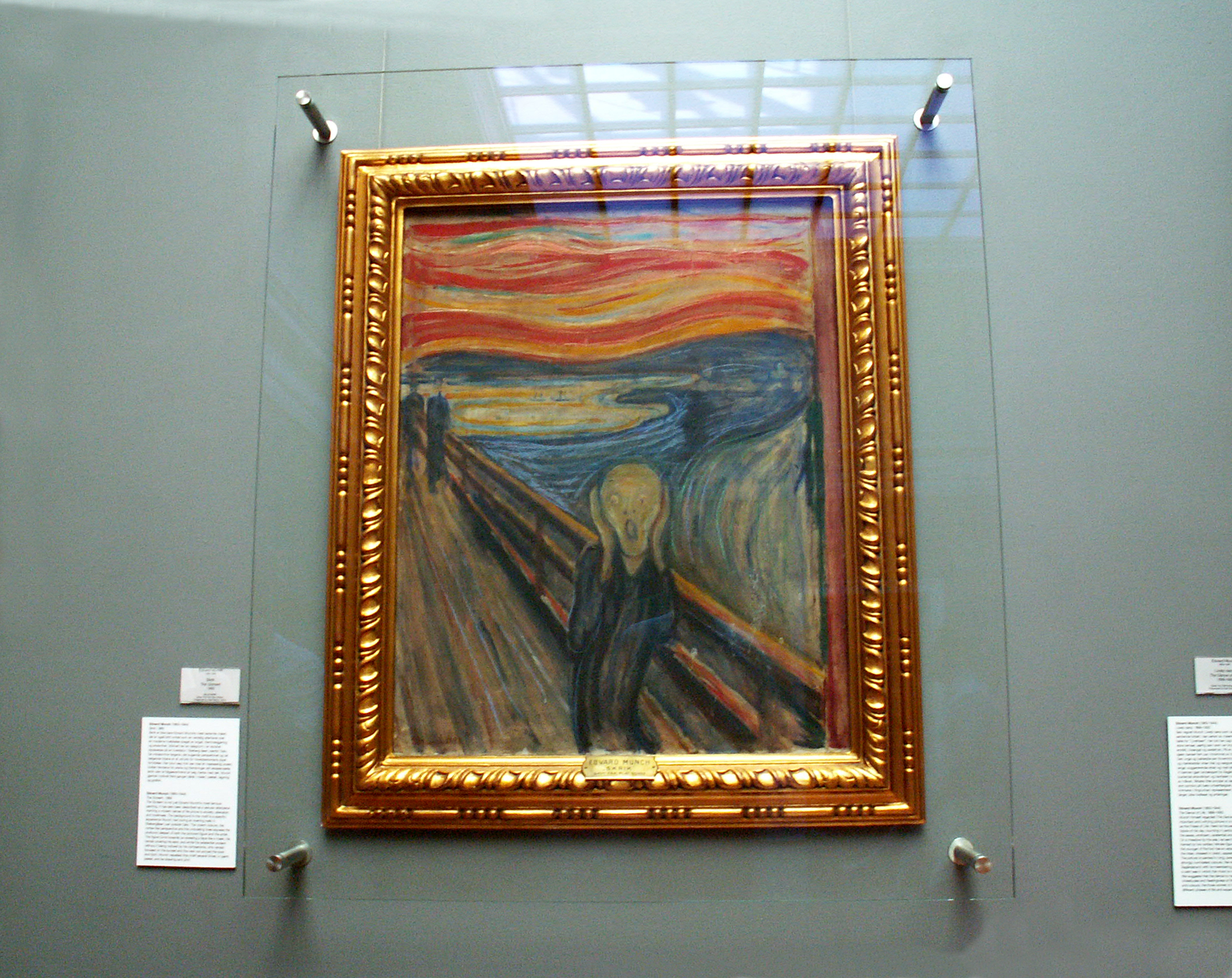 Oslo National Museum (Munch)